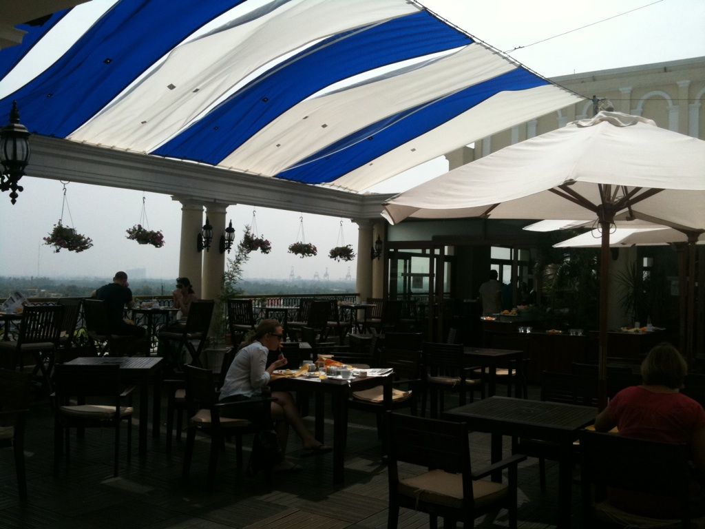 Breeze Sky Bar at Majestic Hotel Saigon